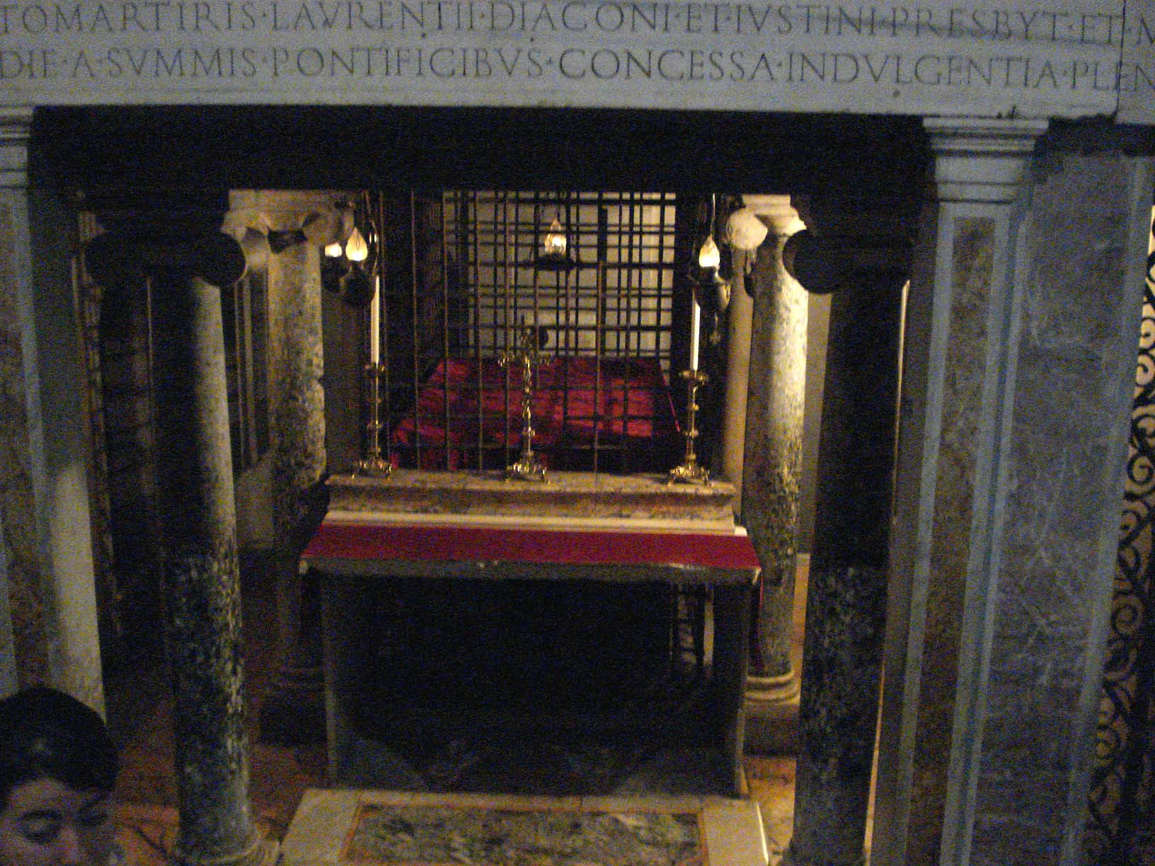 St Stephen an St Lawrence's tomb under San-Lorenzo-fuori-le-Mura high altar